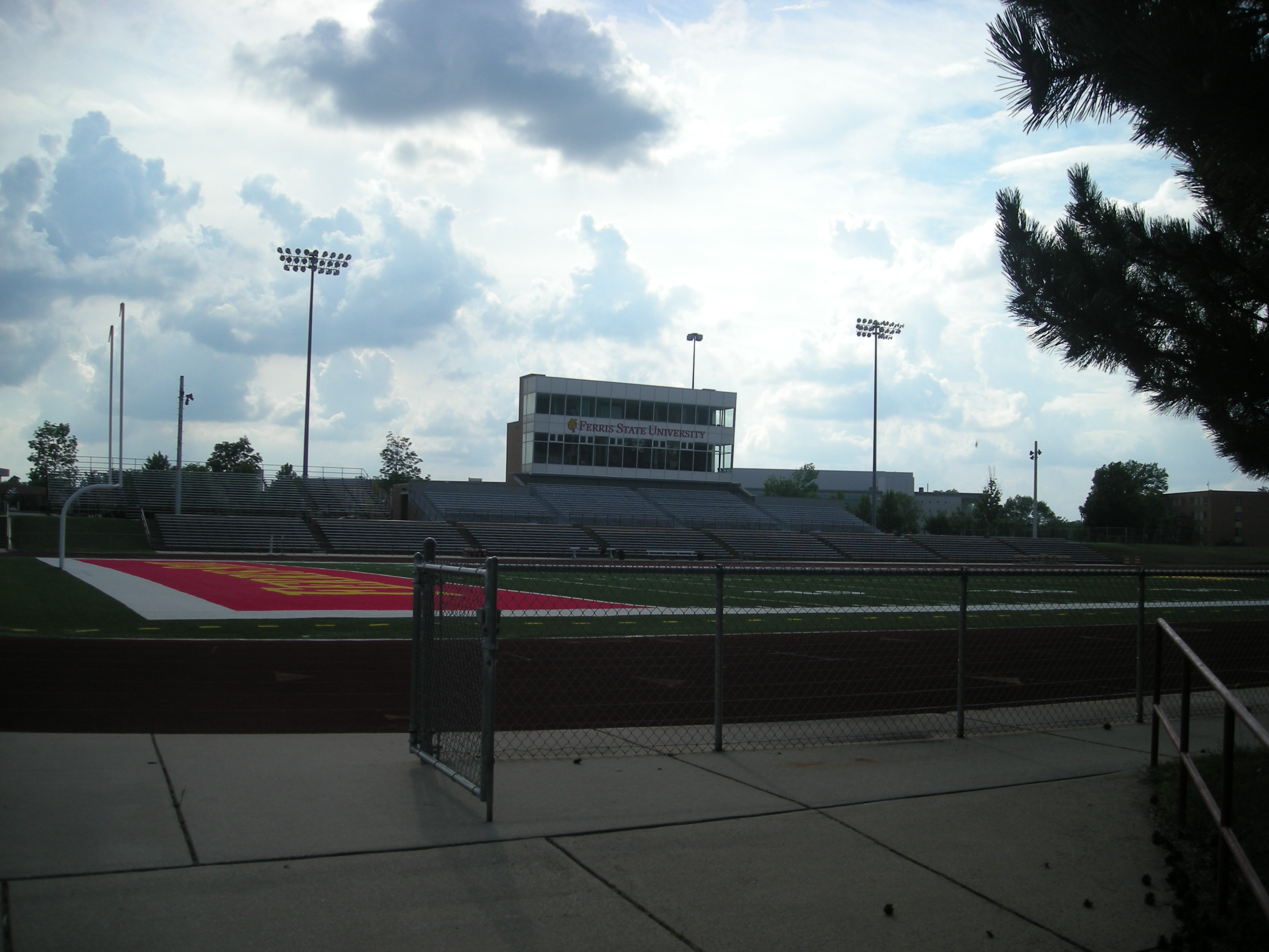 Top Taggart Field on the campus of Ferris State University in Big Rapids, Michigan (United States).